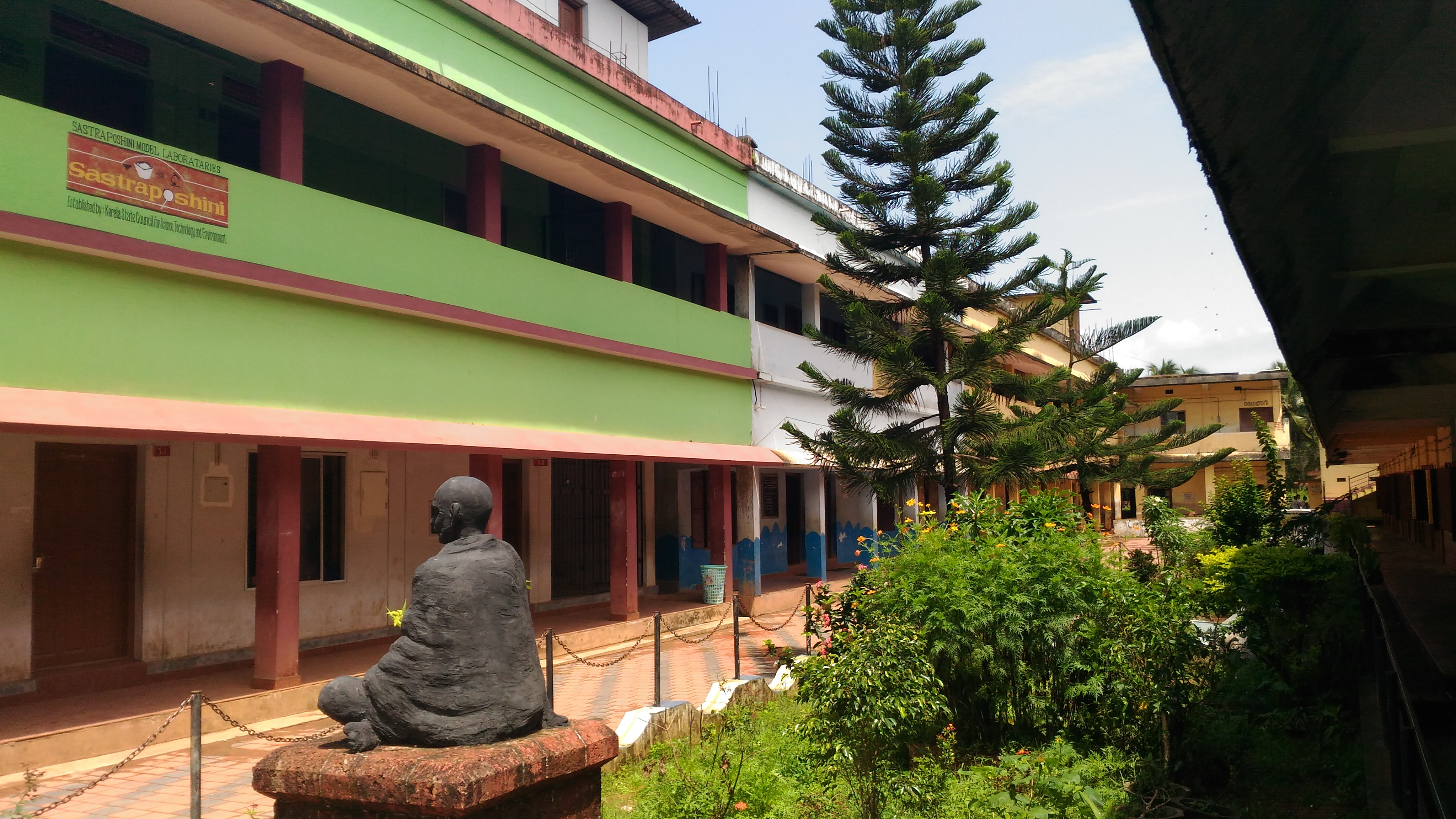 GVHSS Kanhangad